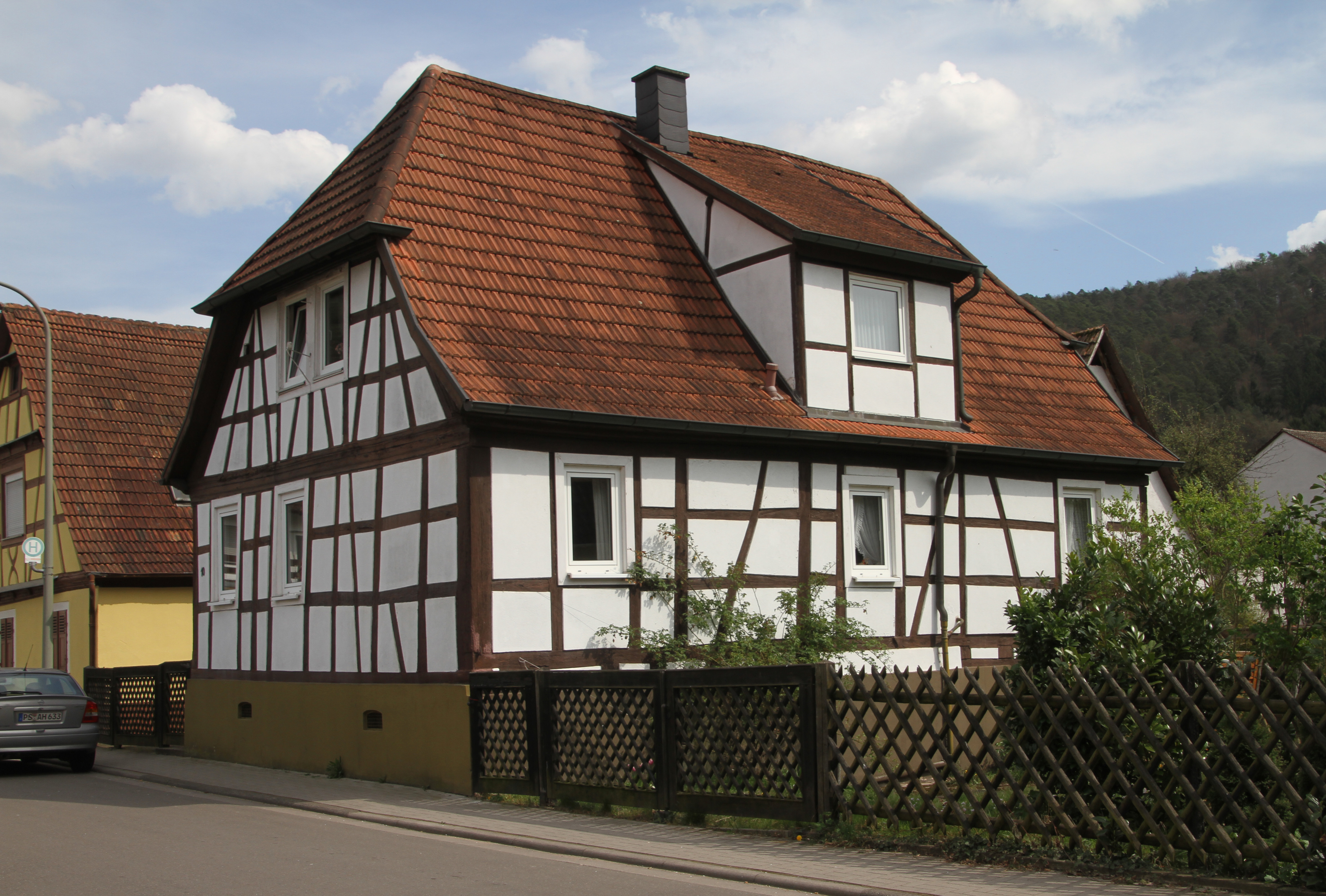 Cultural heritage monument in Hinterweidenthal